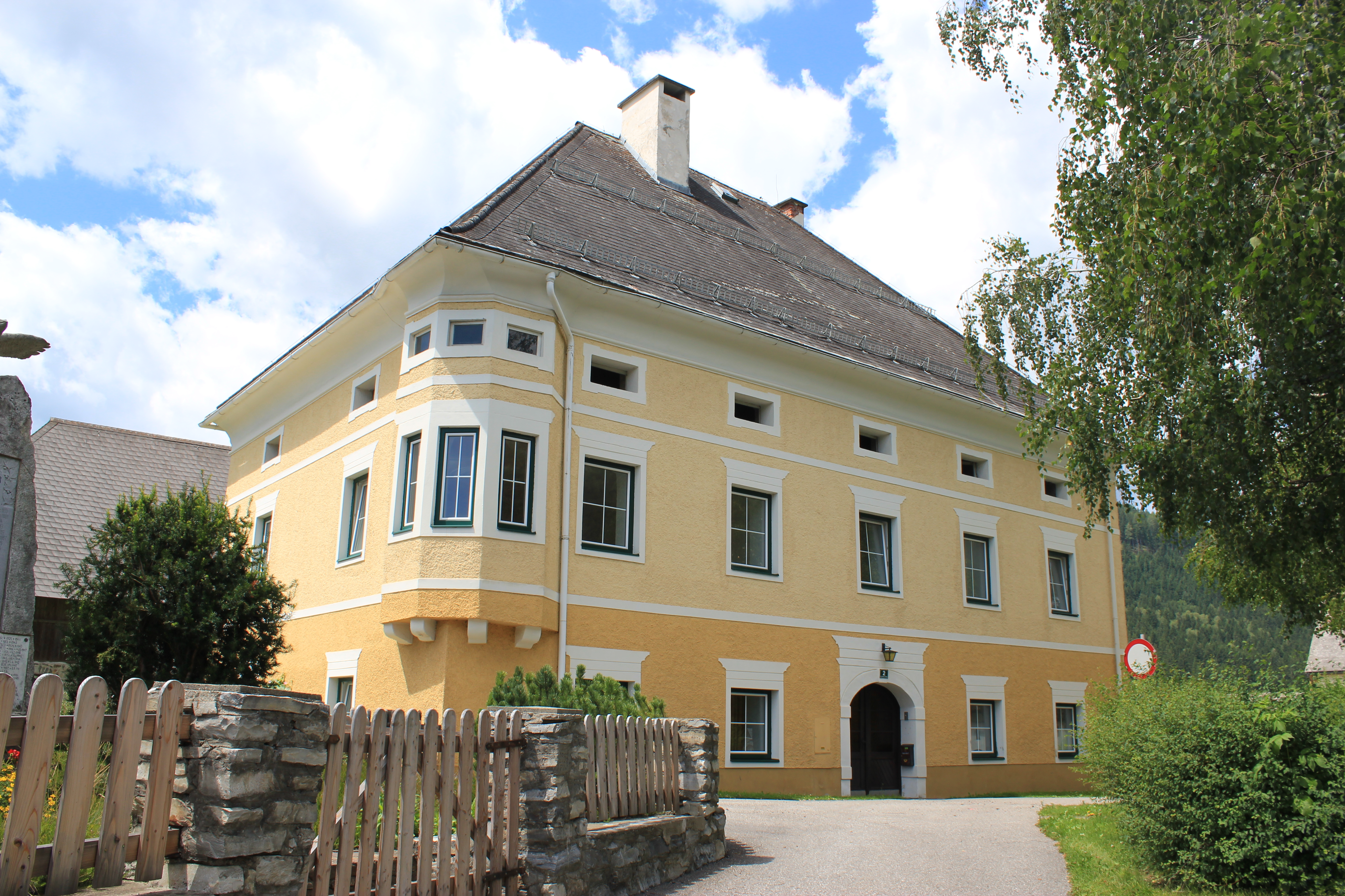 Rectory in Glödnitz